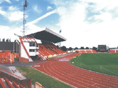 Pictute from [1], which I run on behalf of Gateshead Thunder